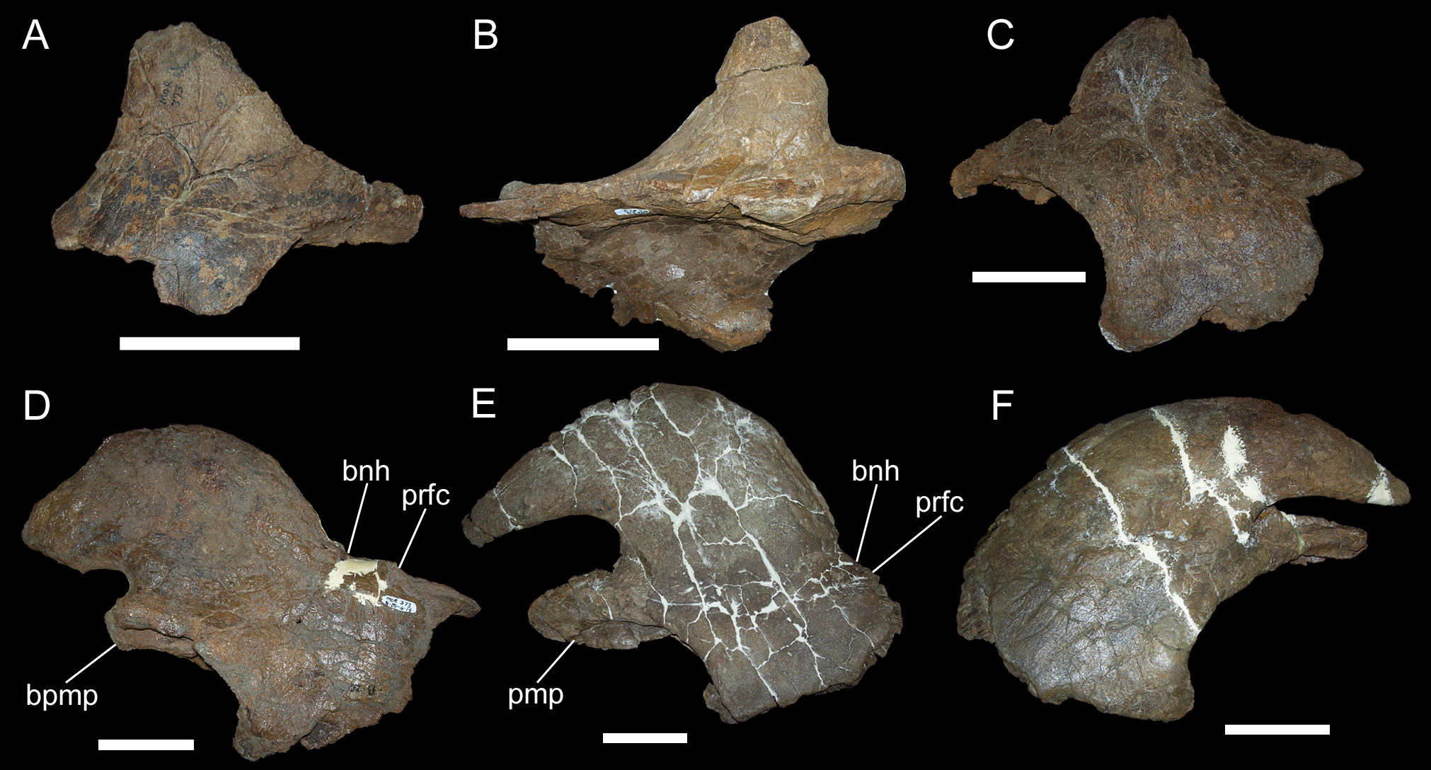 Nasals of Einiosaurus procurvicornis. (A) MOR 373-DR-85, unfused right nasal in lateral view; (B) MOR 373-8-3-87-9, fused left and right nasals in right lateral view; (C) MOR 373-7-6-86-9, fused left and right nasals in left lateral view; (D) MOR 373-8-20-6-14, fused left and right nasals in left lateral view; (E) MOR 456-8-9-6-1 (holotype), fused left and right nasals in left lateral view; (F) MOR 456-8-13-7-5, fused left and right nasals in right lateral view. Abbreviations: bnh, base of nasal horncore; bpmp, base of premaxillary process; pmp, premaxillary process; prfc, prefrontal contact. Scale bars equal 10 cm.